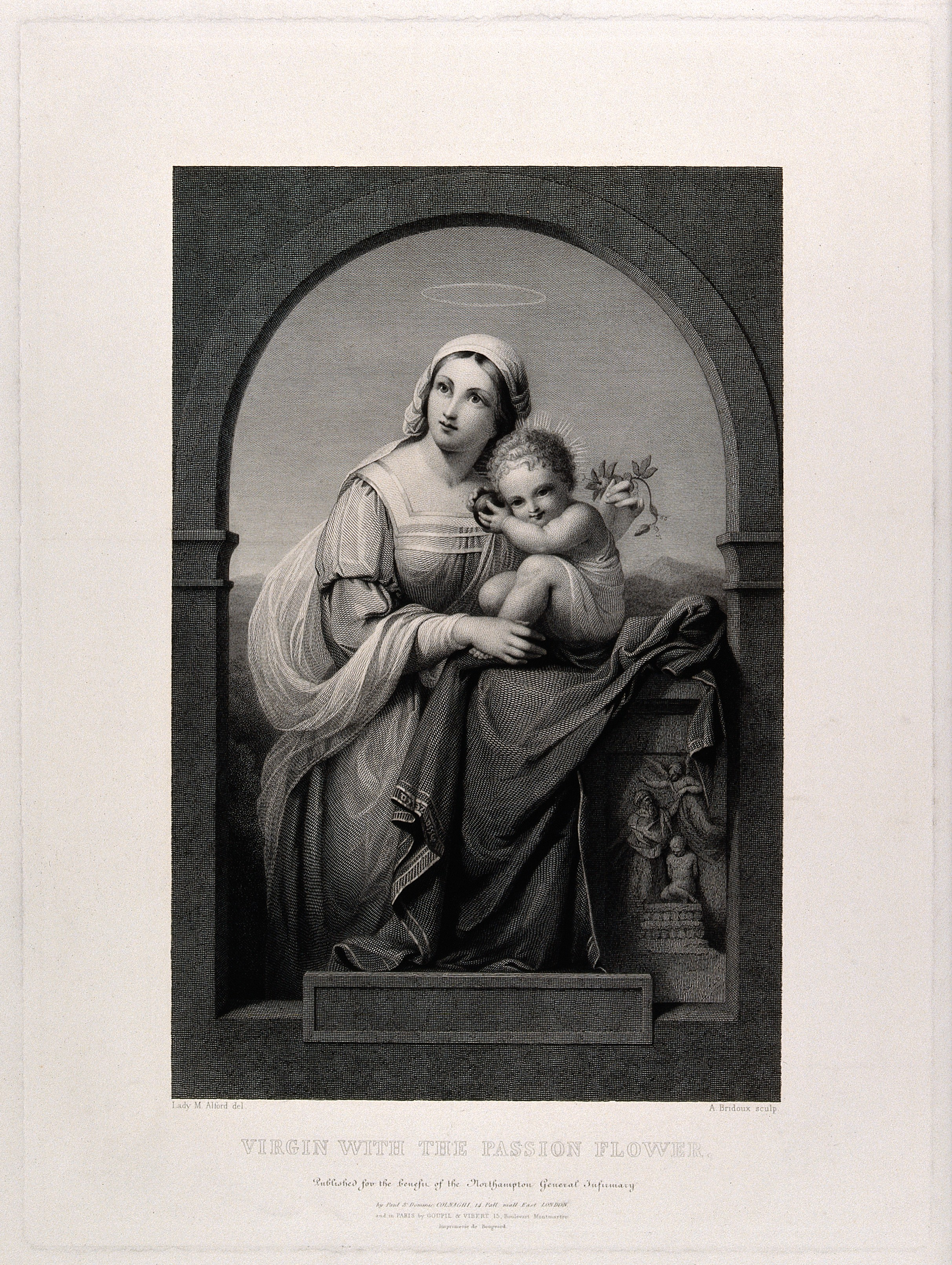 Saint Mary (the Blessed Virgin) with the Christ Child. Engraving by F.E.A. Bridoux after Lady M.M.V. Alford. Iconographic Collections